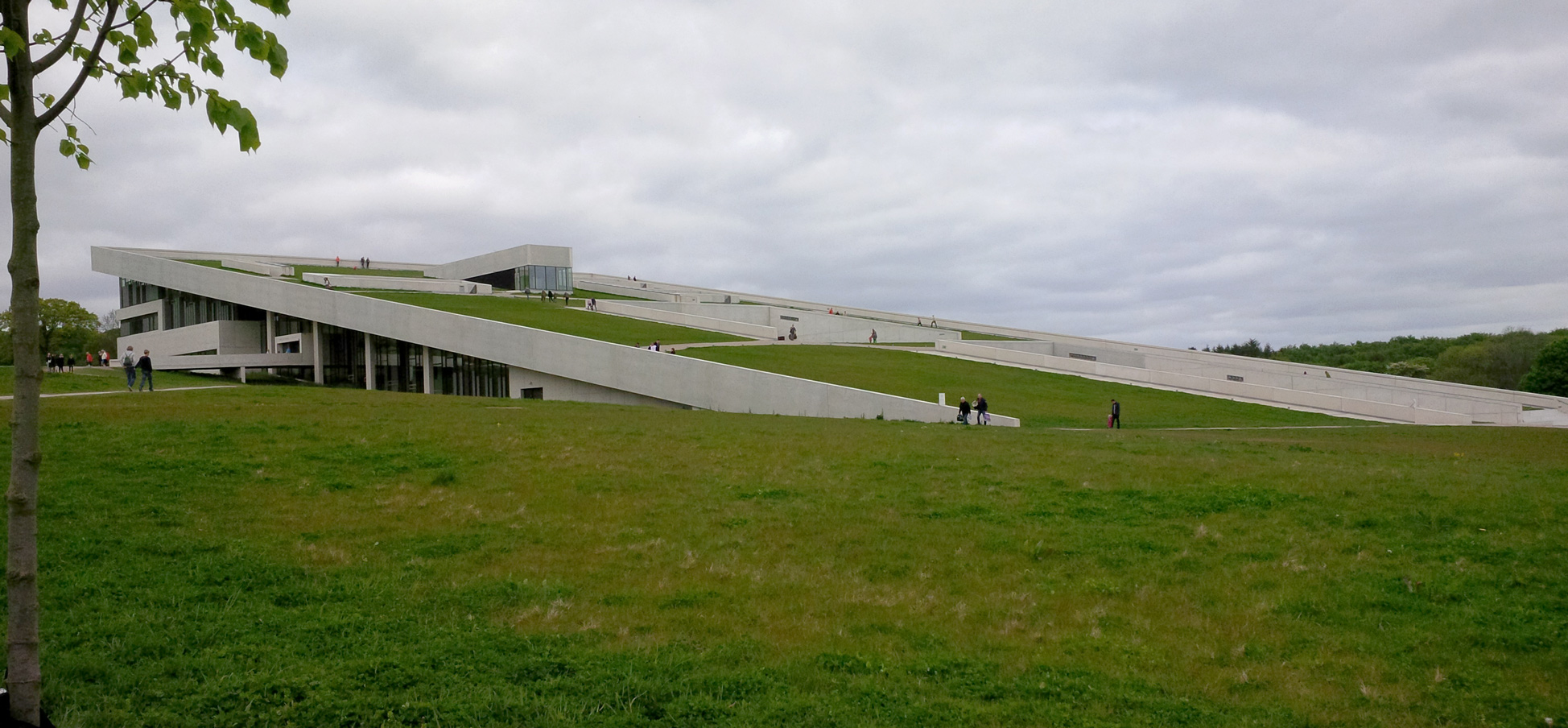 MoMu Moesgaard Museum Aarhus Denemarken